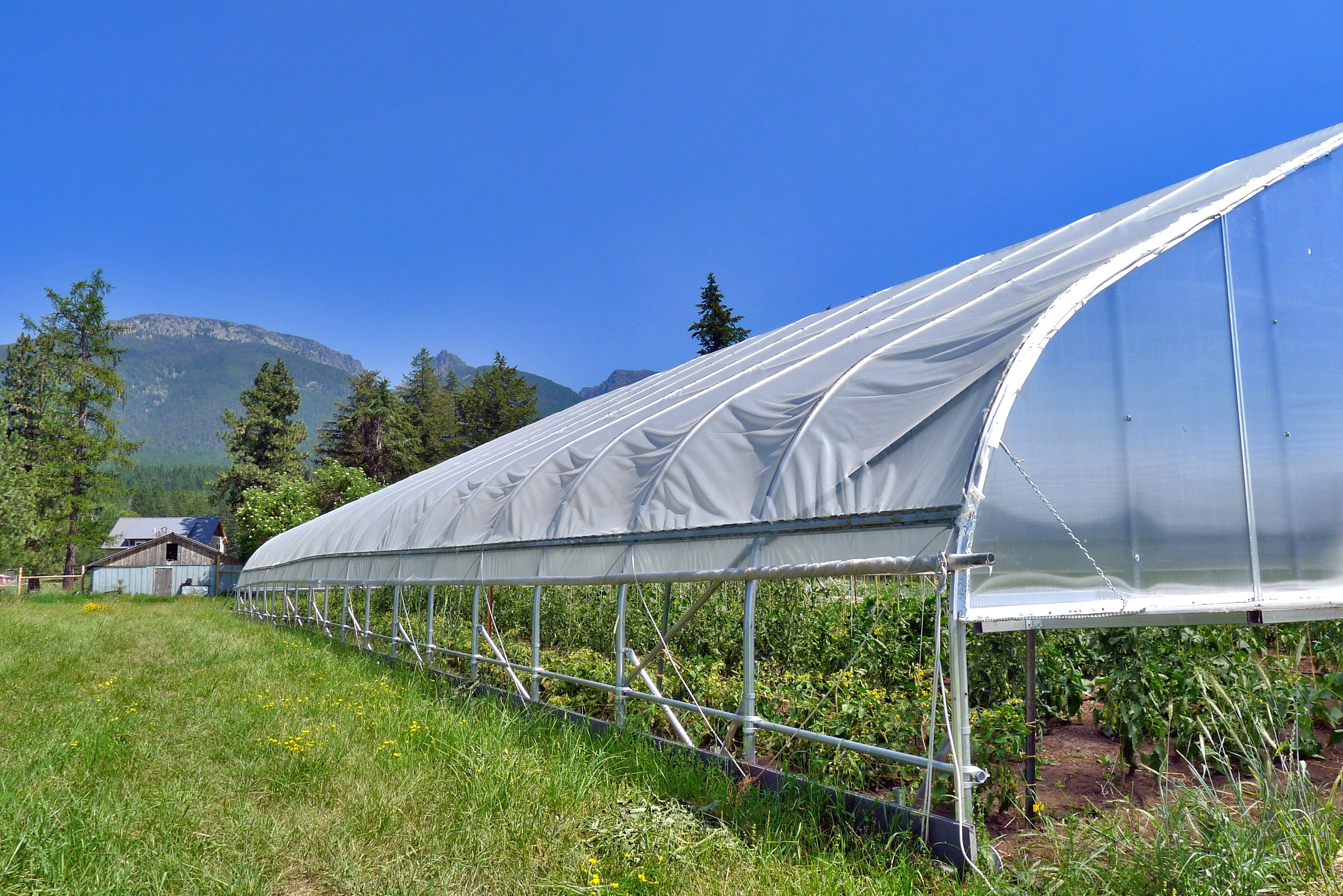 Organic vegetable production with micro irrigation, irrigation water management, and a movable tunnel. June 2012. Lake County, Montana.